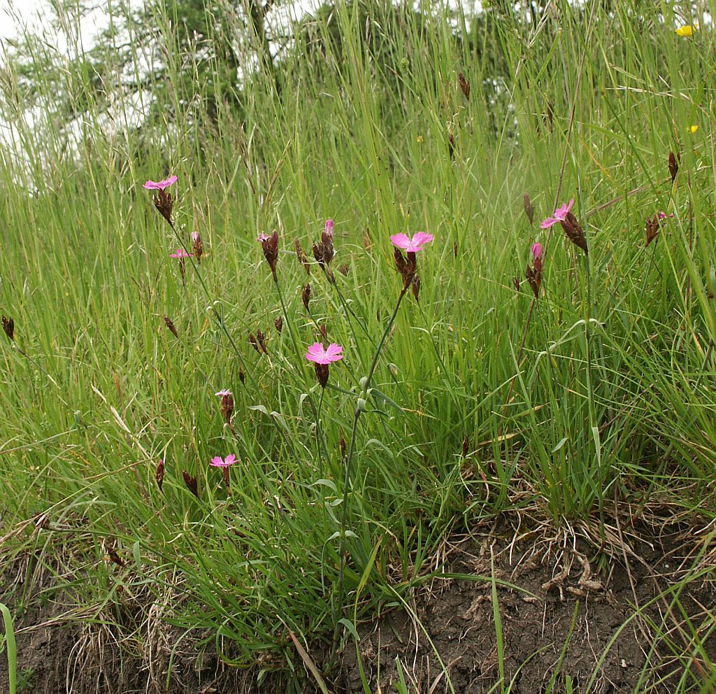 Dianthus carthusianorum, Hohenloher Land, Germany